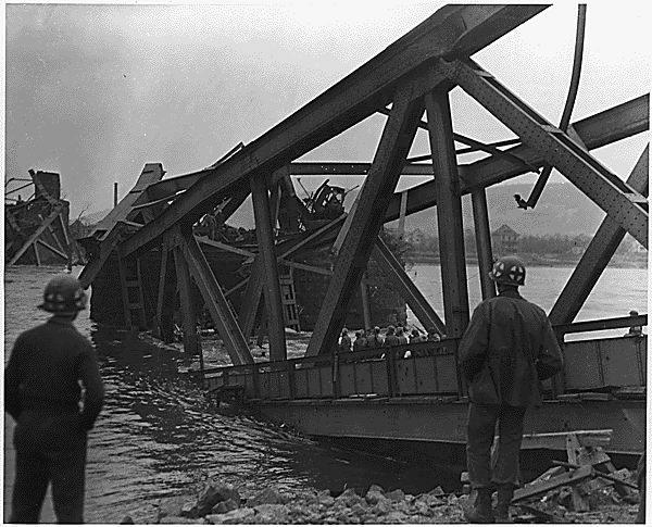 Ludendorff Bridge, in 1945 shortly after the collapse.